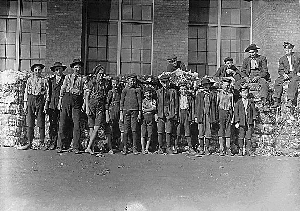 Original description: Group of boys working in Lancaster Cotton Mills. Smallest boy in middle said he has been in the mill off and on for 5 years. Spins now. Lancaster, S.C., 11/30/1908. Photographed by Lewis Hine.